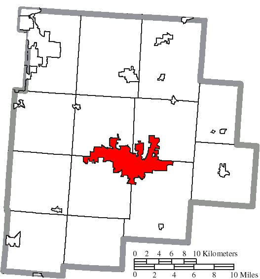 Map of the municipal and township boundaries of Fairfield County, Ohio, United States, as of the 2000 census, with the location of the city of Lancaster highlighted. Township borders are shown only in unincorporated areas in order to differentiate incorporated and unincorporated areas more clearly.